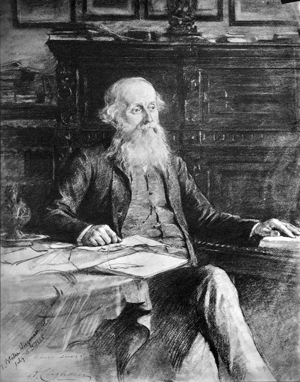 Hugh Cleghorn, charcoal drawing by Theodore Blake Wirgman. This was presented to Cleghorn by the Royal Scottish Arboricultural Society at a dinner on 7 August 1888.